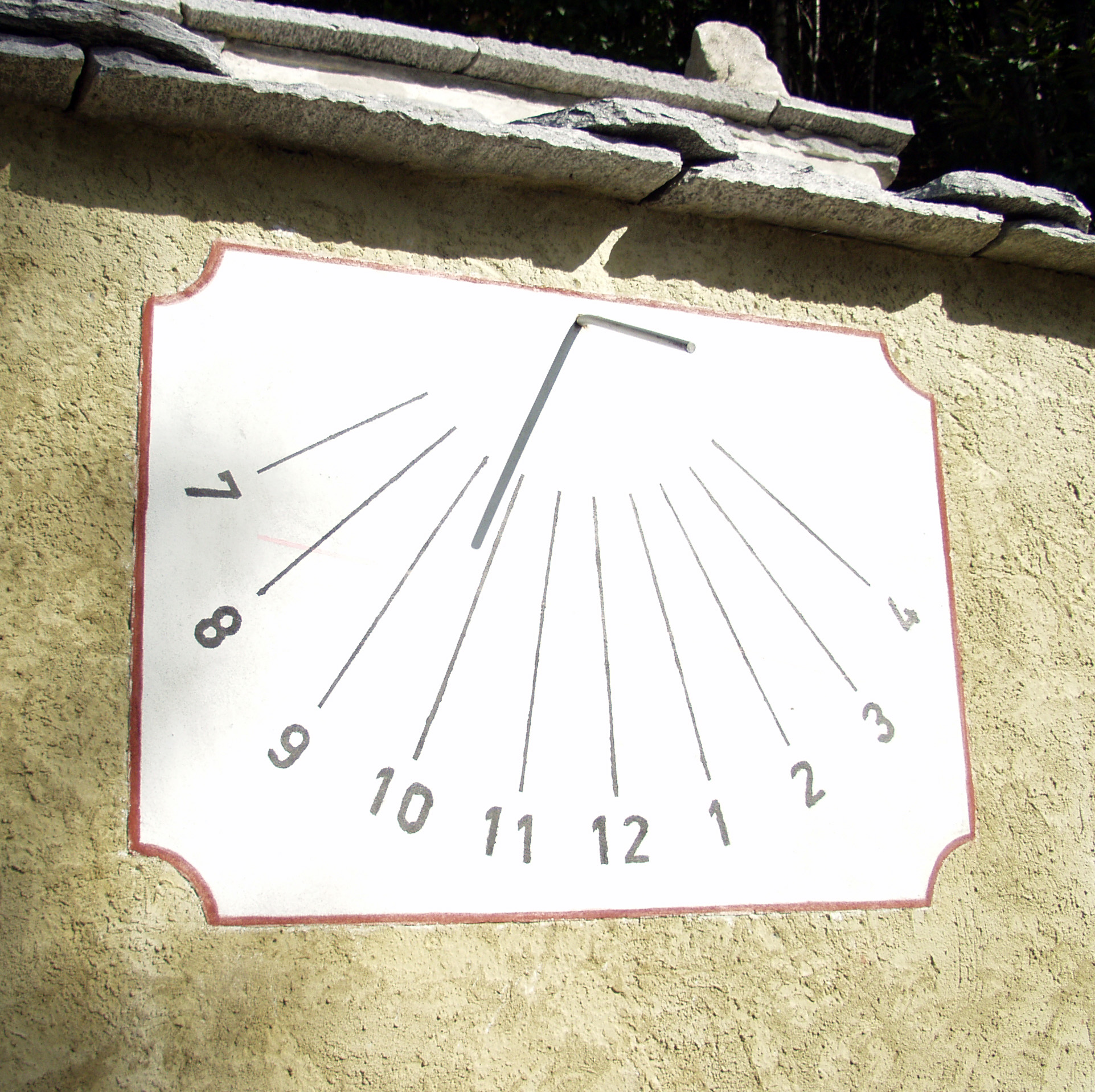 Sundial at 10:47:27 CEST